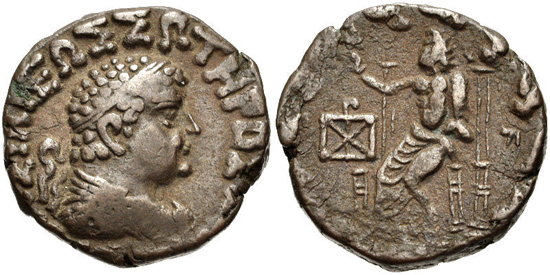 Hermaios posthumus issue mid 1st century BCE